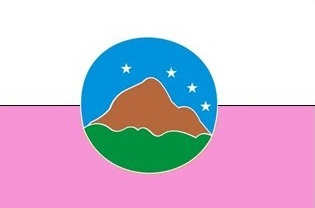 Flag of Itaguaçu (Espírito Santo) - Copyrited by the brazilian law of Industrial Preperty (Law 9.279/ 14/05/1996)